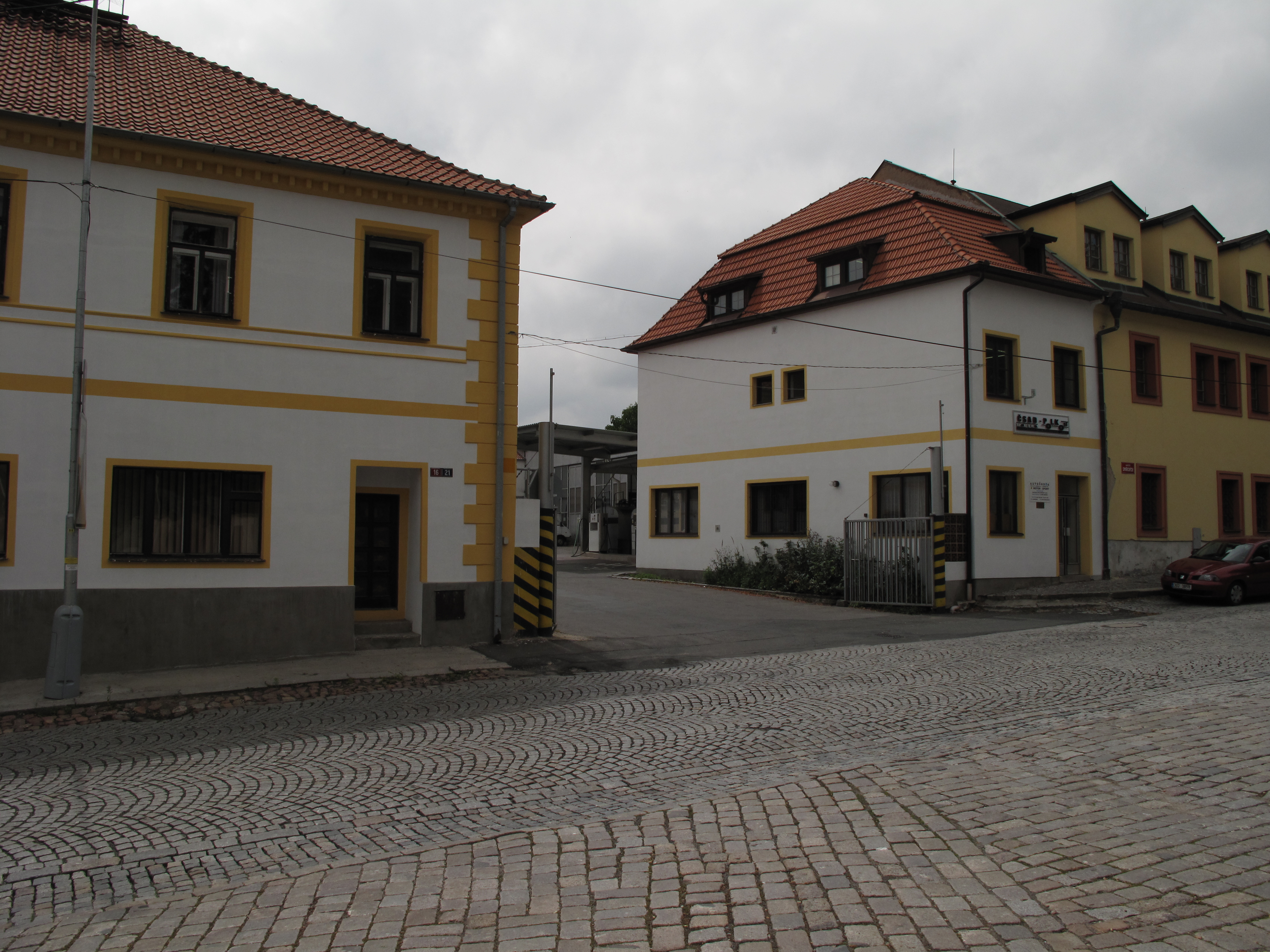 Headquarters of ČSAD POLKOST, Kostelec nad Černými lesy, Kolín District, Czech Republic.